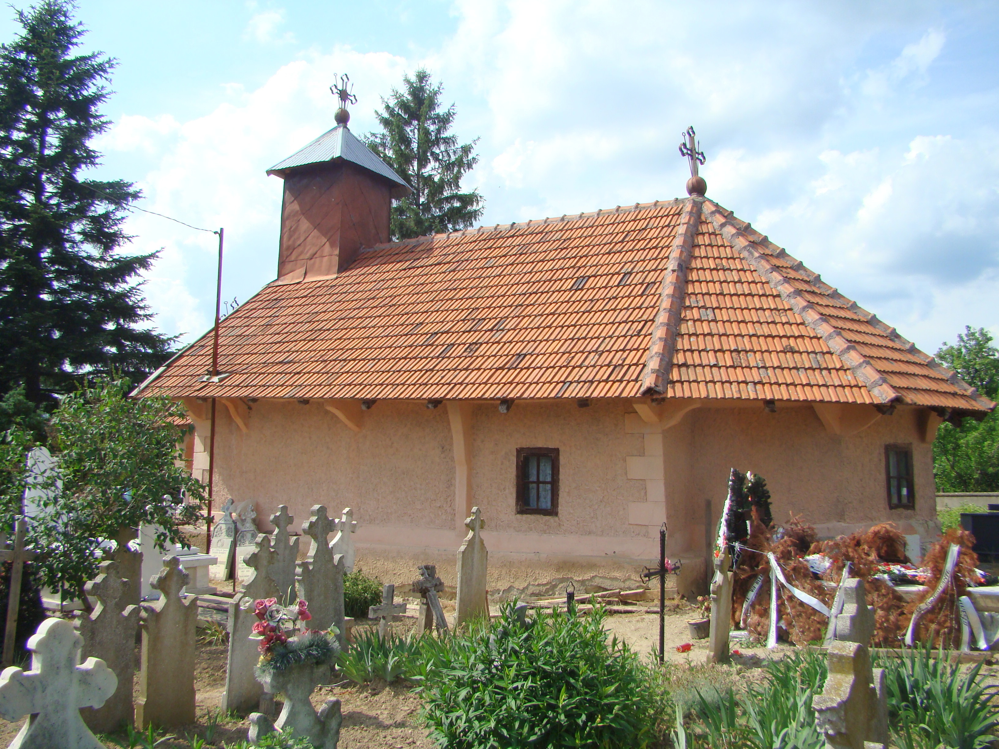 Wooden church in Lăzărești, Gorj county, Romania